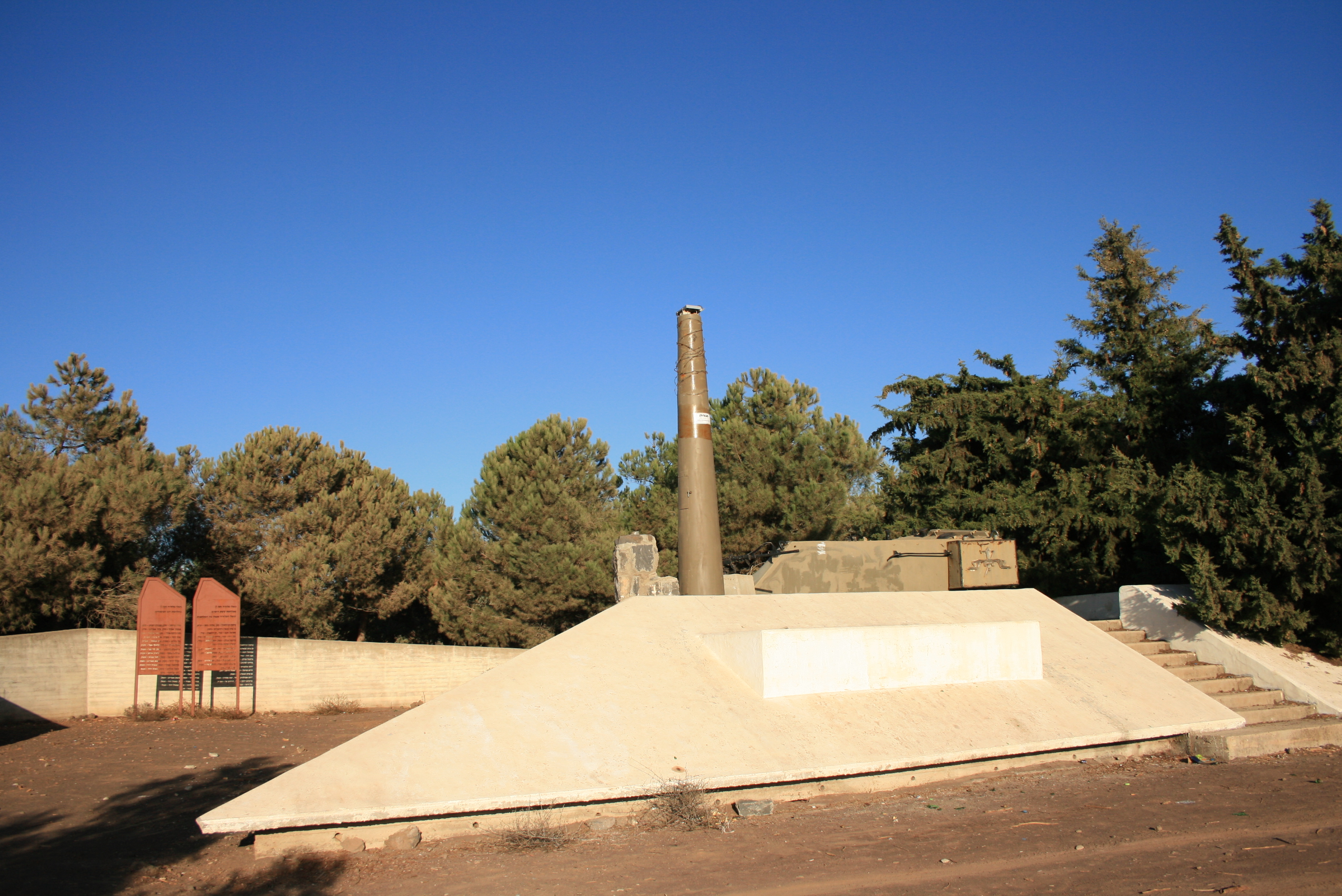 The Palsar 7 (armored recon.) memorial site, Golan Heights, Israel.